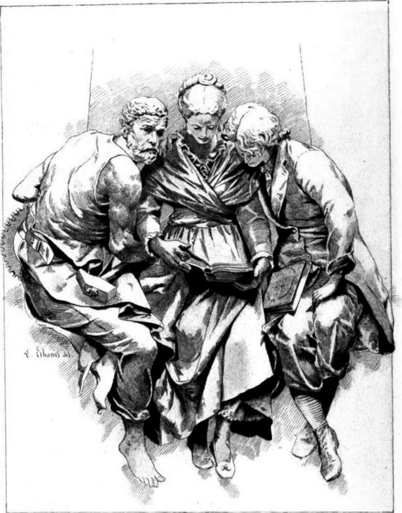 Engraving of a Reading Group.